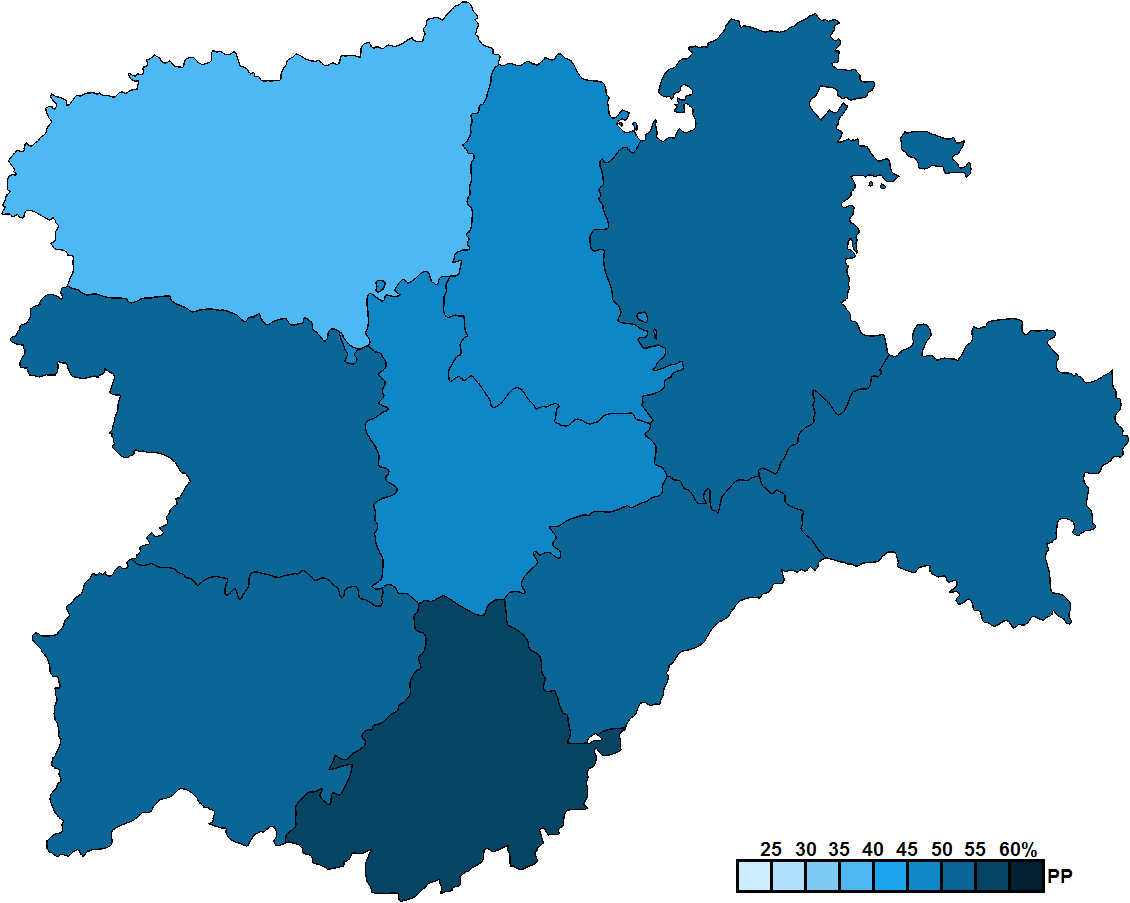 Provincial results for the 2003 Castilian-Leonese regional election.